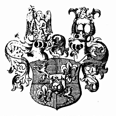 Coat of arms of Gentilotti